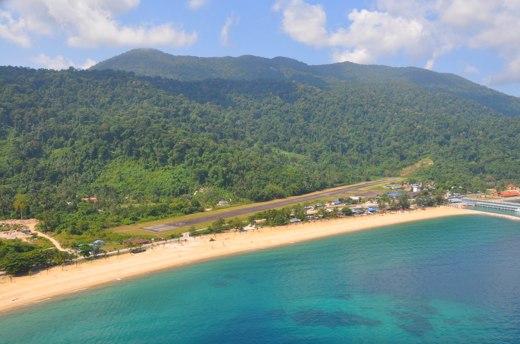 Photo taken by myself at Pulau Tioman. This runway is only accessible from the north end (i.e. from left-hand-side in this photo), due to hills at south.